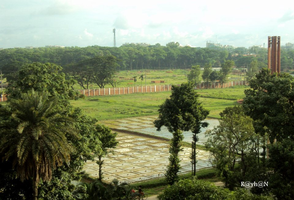 SAU Campus